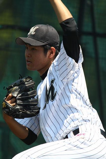 Shogo Yamaguchi, pitcher of the Chiba Lotte Marines, at Lotte Urawa Baseball Ground.